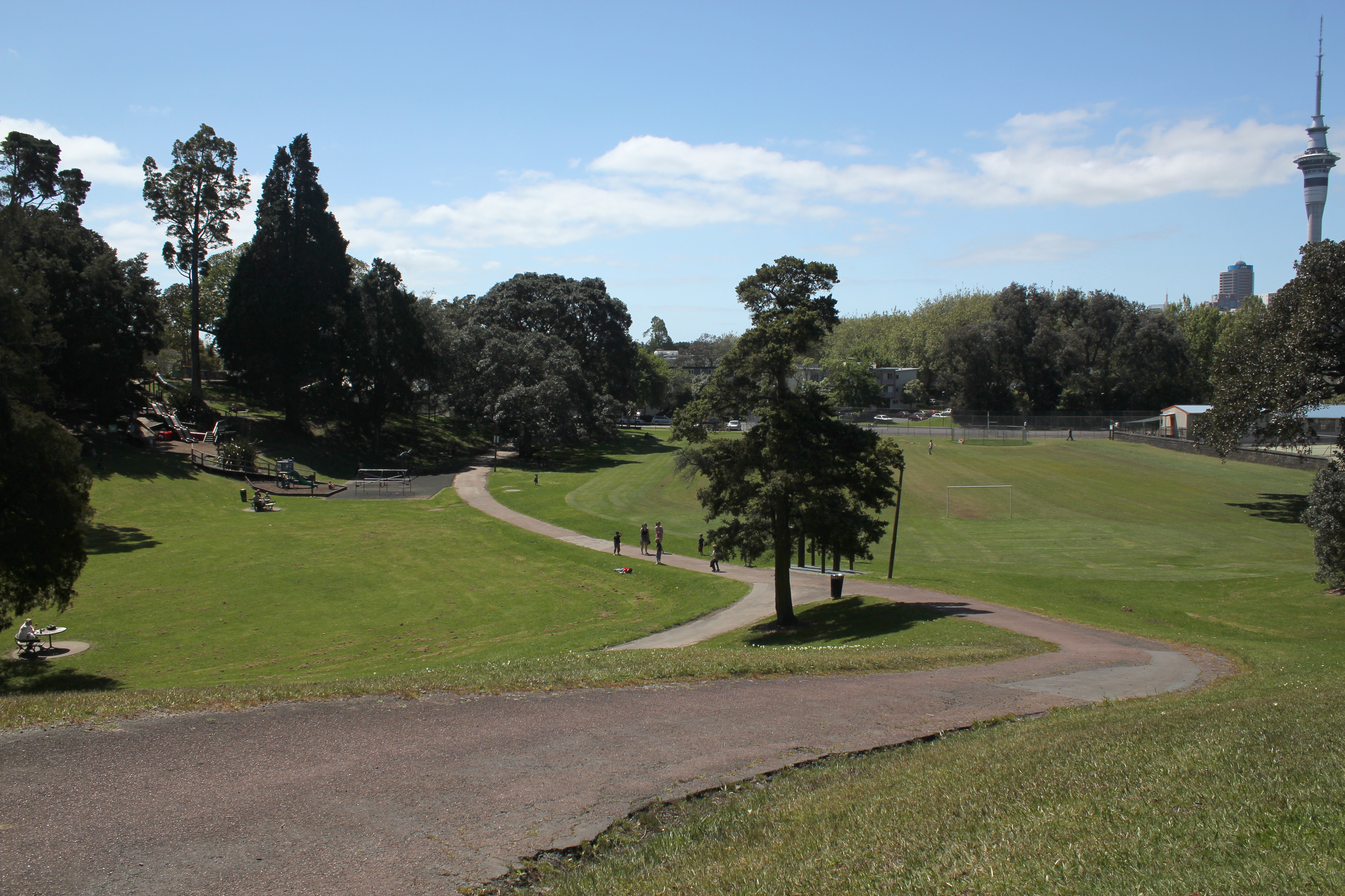 The field at the bottom of Western Park, Freemans Bay, one of Auckland's oldest parks.